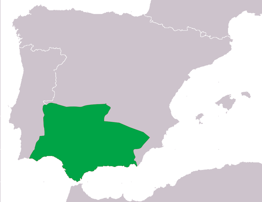 Pelodytes ibericus range map.